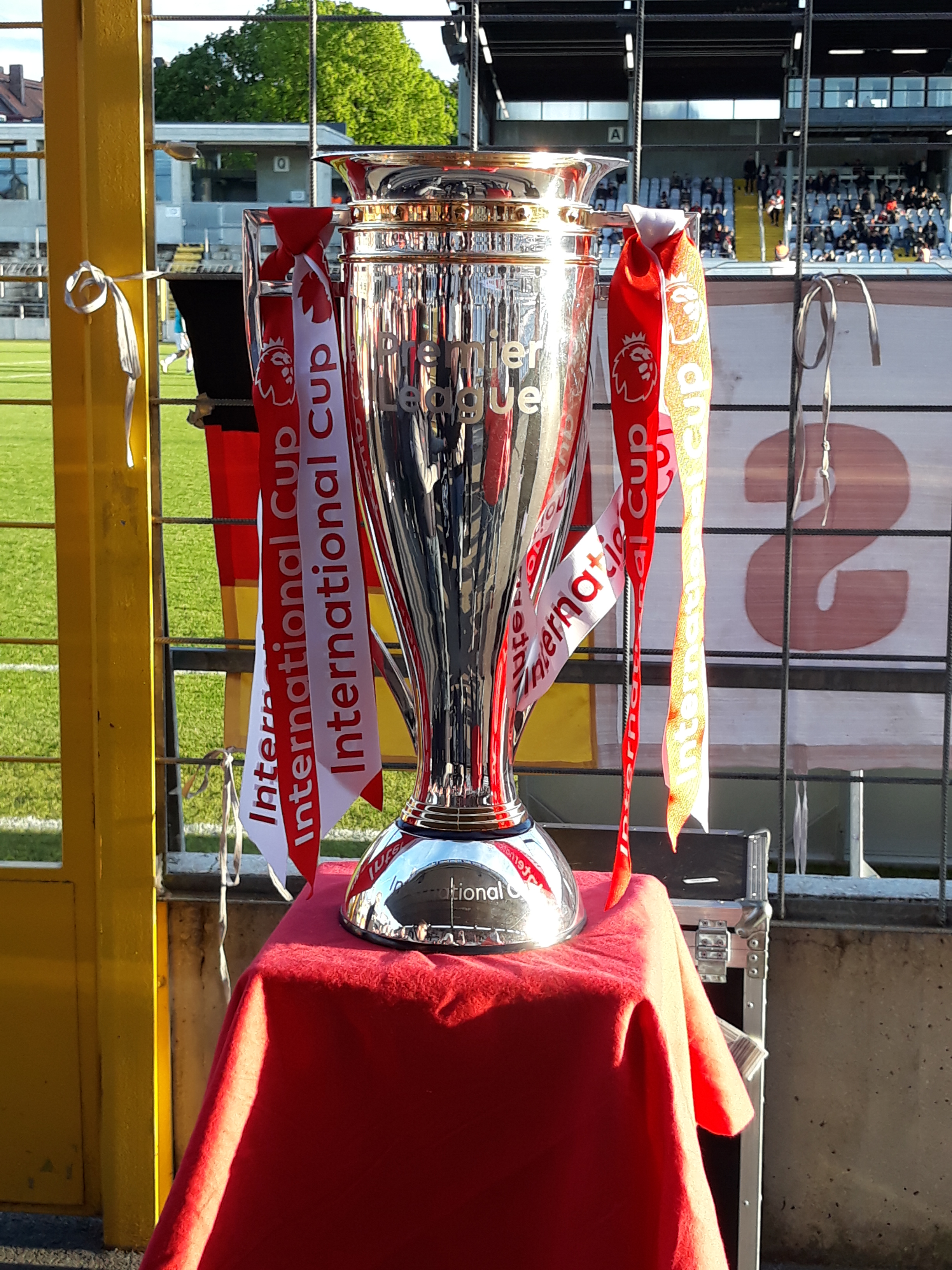 Premier League International Cup Trophy